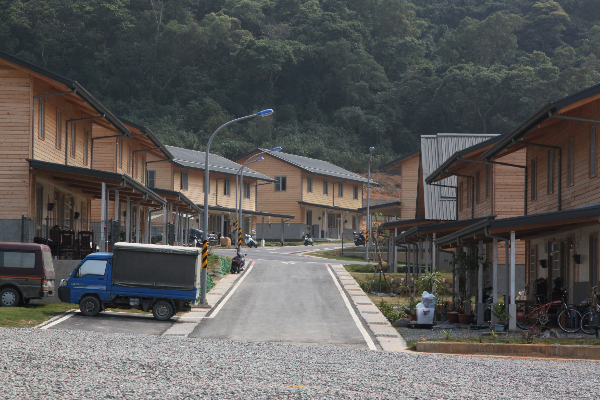 The Kucapungane village in Pingtung County, Taiwan.